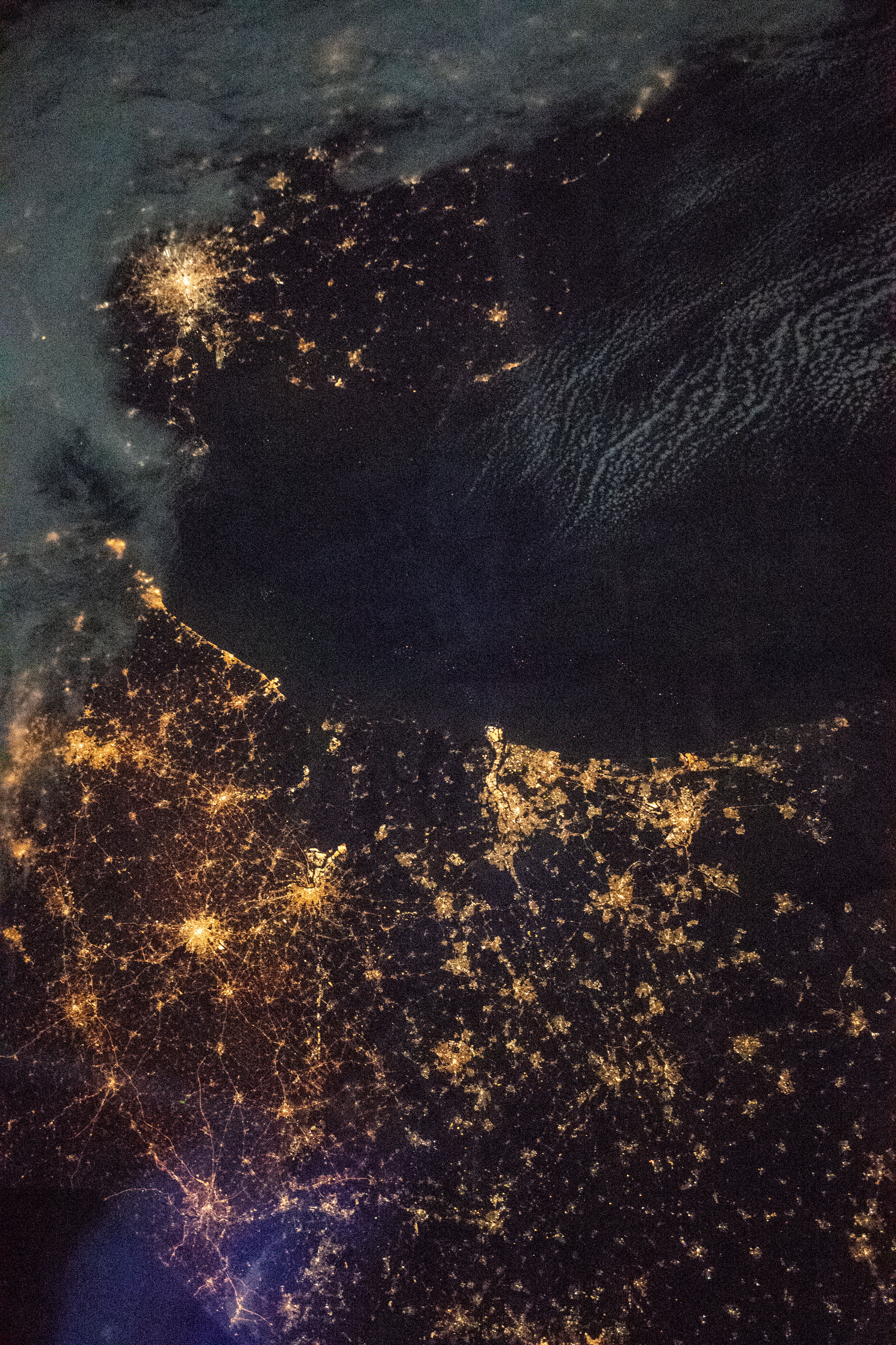 This nighttime shot from the International Space Station taken 258 miles above the English Channel shows the lights of the northern European cities of (clockwise from top left) London, Amsterdam, The Hague, Rotterdam, Antwerp and Brussels and other surrounding cities.